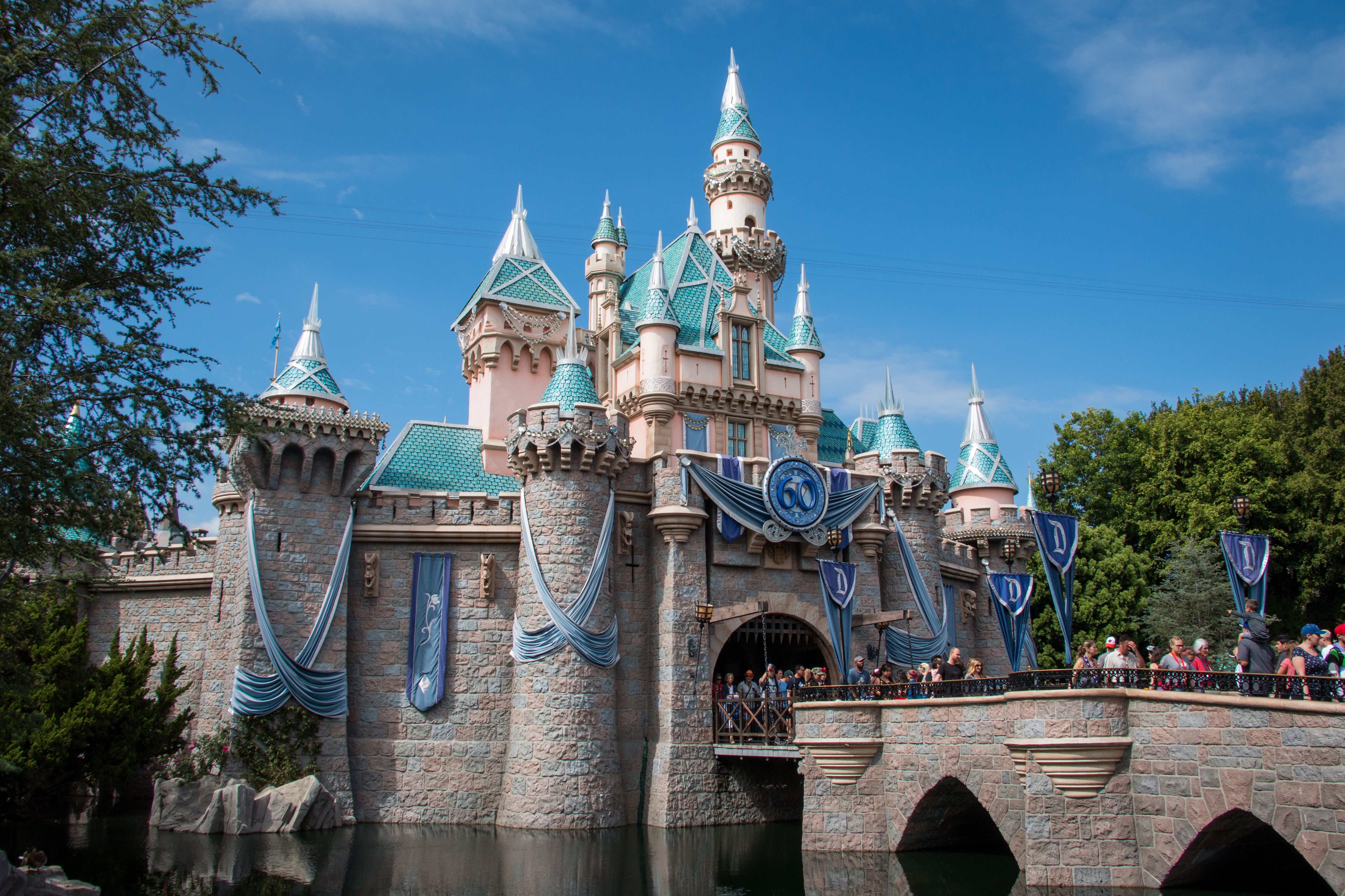 The Sleeping Beauty Castle looking sparkly and lovely for the Disneyland Resort Diamond Celebration.